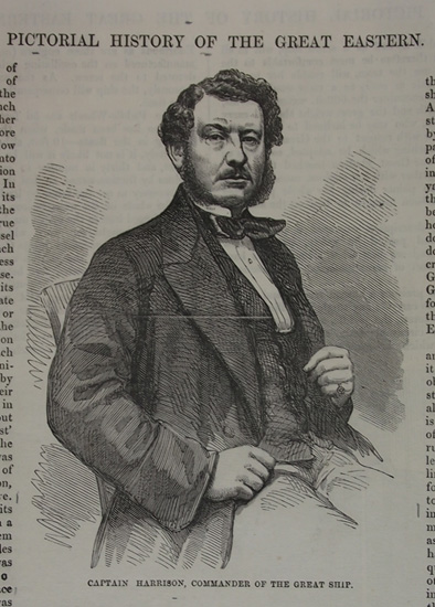 Print showing Captain William Harrison who was captain of the ship Great Eastern until 1860 when he drowned. It is in the collection at The Mariners' Museum, Newport News, VA.